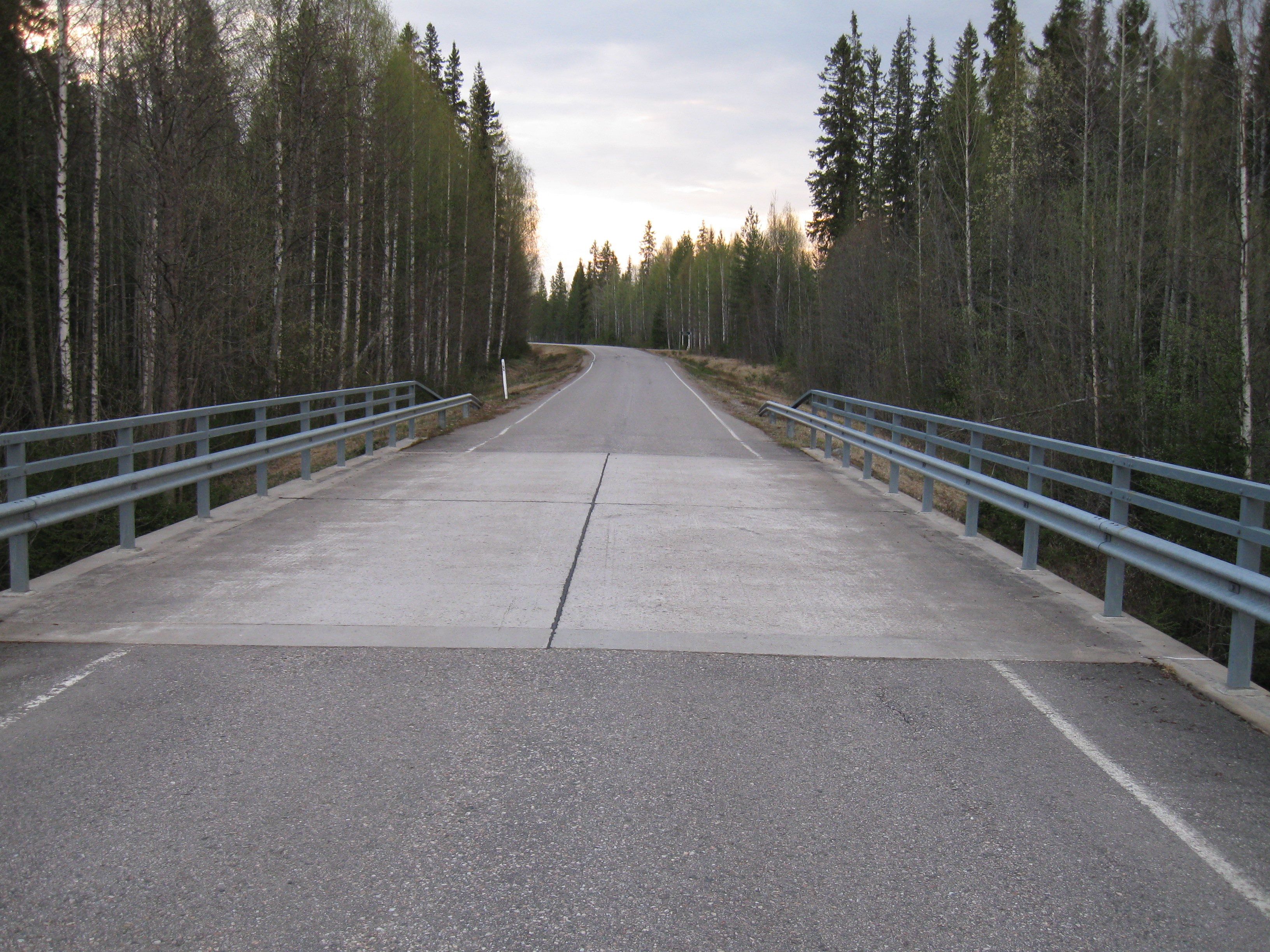 Connecting road 8832 at the bridge of Pohjolanjoki river in Puolanka, Finland, seen to the North towards the village of Puokio.